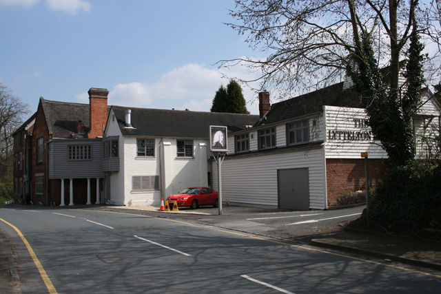 The Lyttelton Arms, Hagley